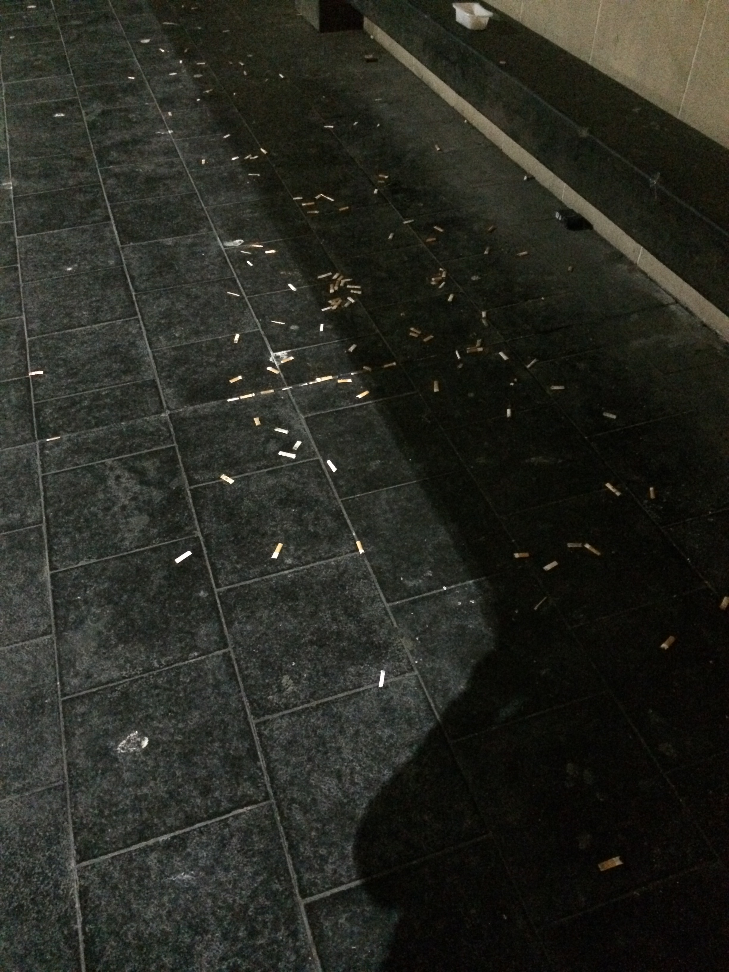 littering of cigarette butts in a smoke-free area from the University of Sydney, Sydney, NSW, AU